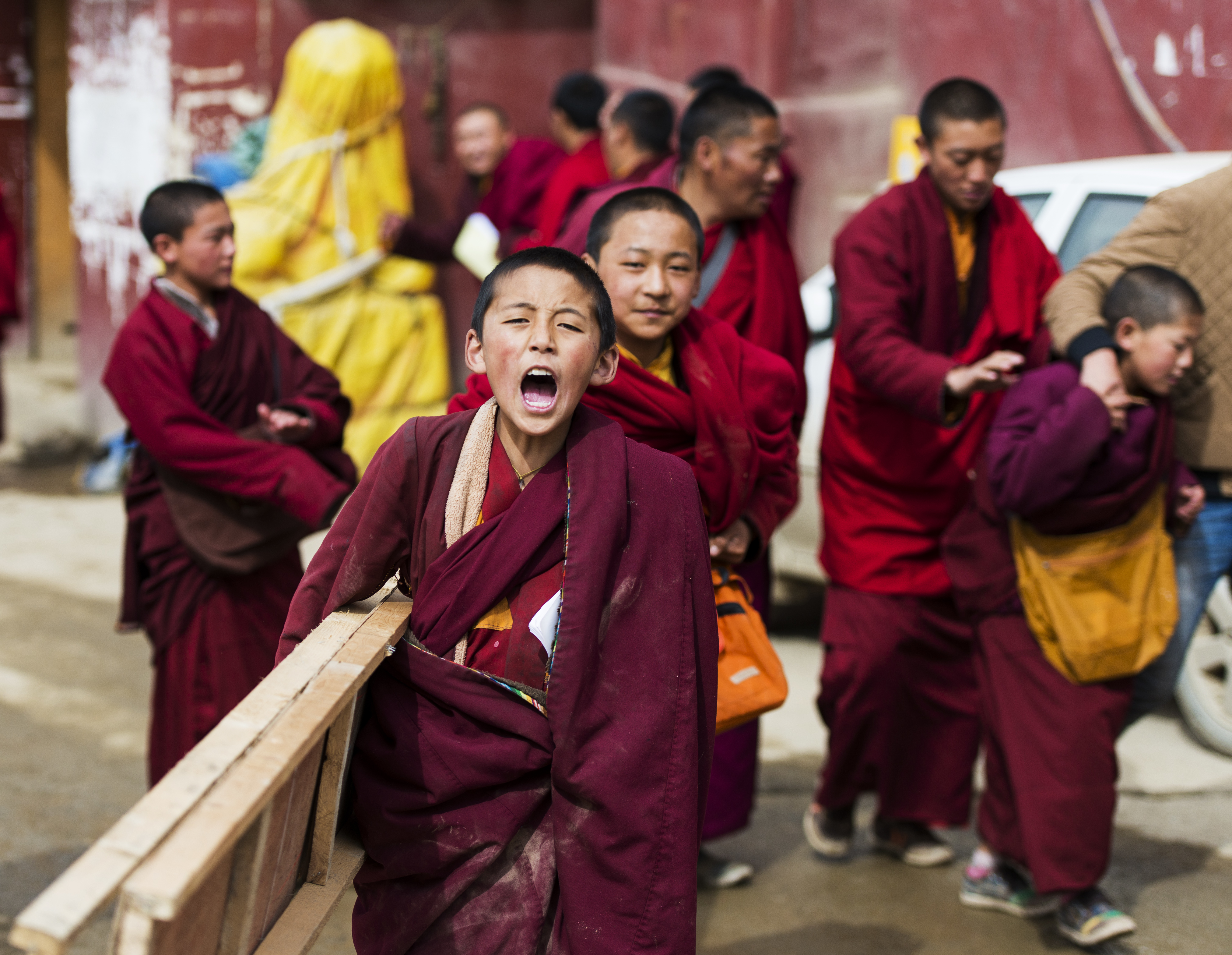 seda sertar tibet china monk buddhist 2013